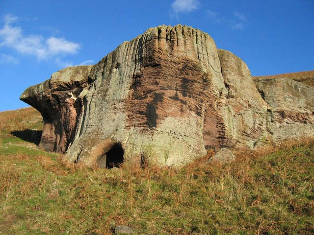 Cuddy's Cave St.Cuthbert's body may have rested in this shallow cave on its long journey from Lindisfarne to Durham cathedral.